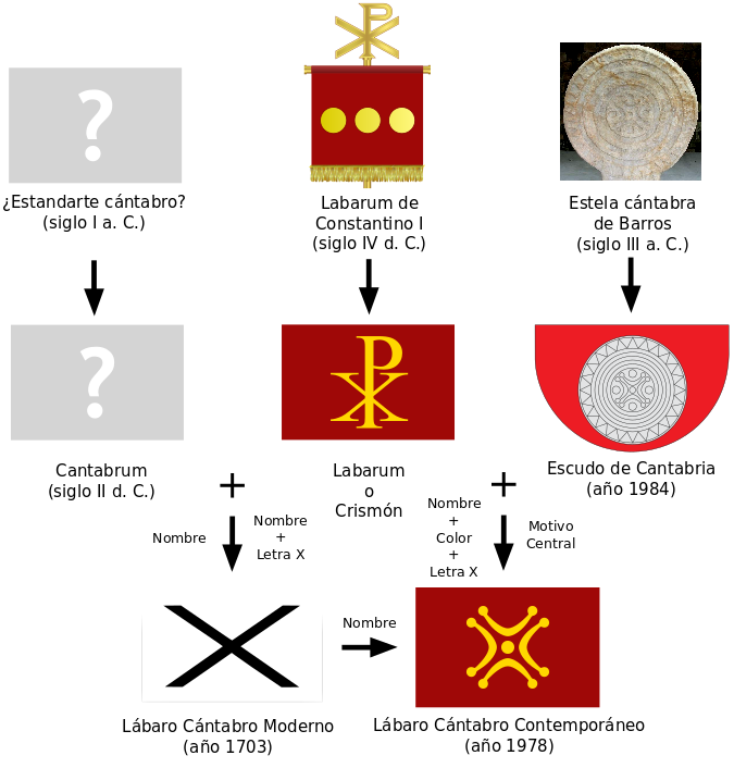 Diagram of the origin of the flags known as "Cantabrian Labarum" in Modern and Contemporary ages.